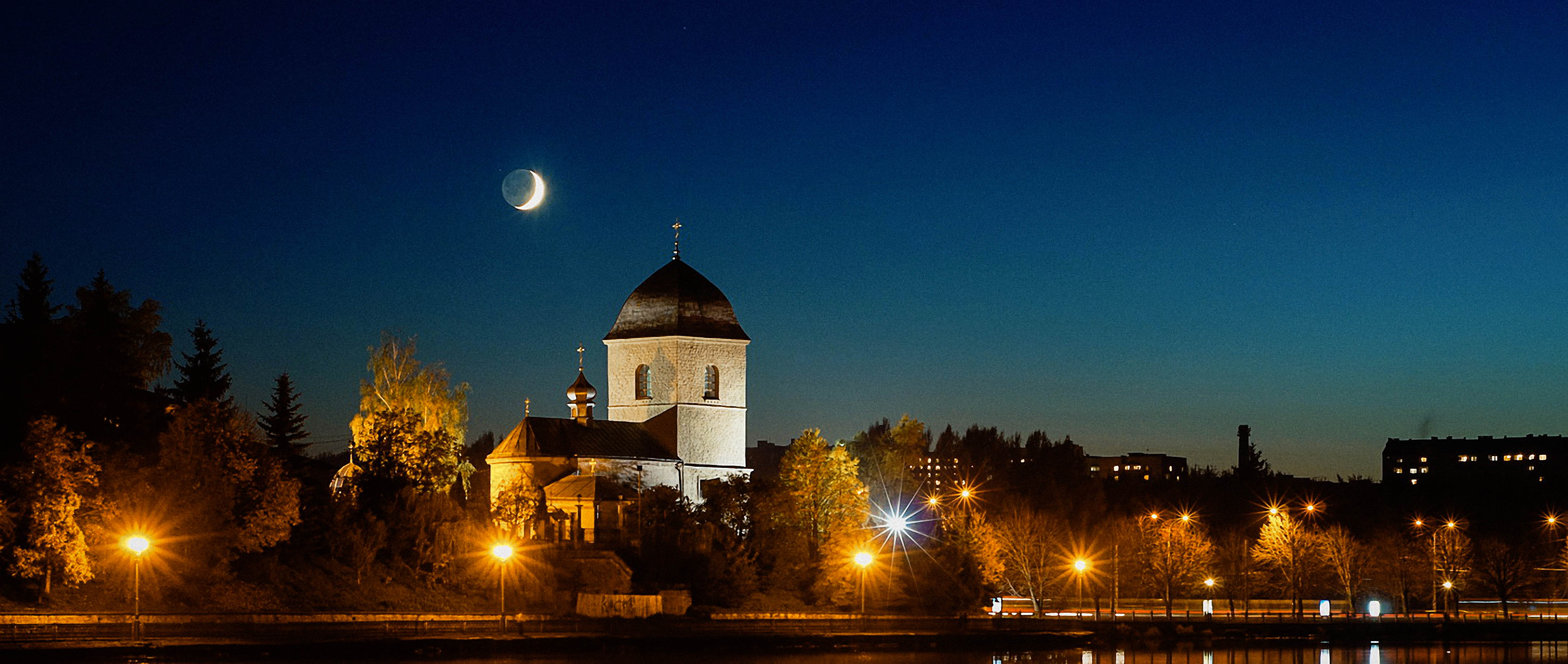 16th-century Exaltation of the Holy Cross Church over Ternopil Pond, the oldest church in the city (architectural monument of the national significance №635). Ternopil, Ukraine